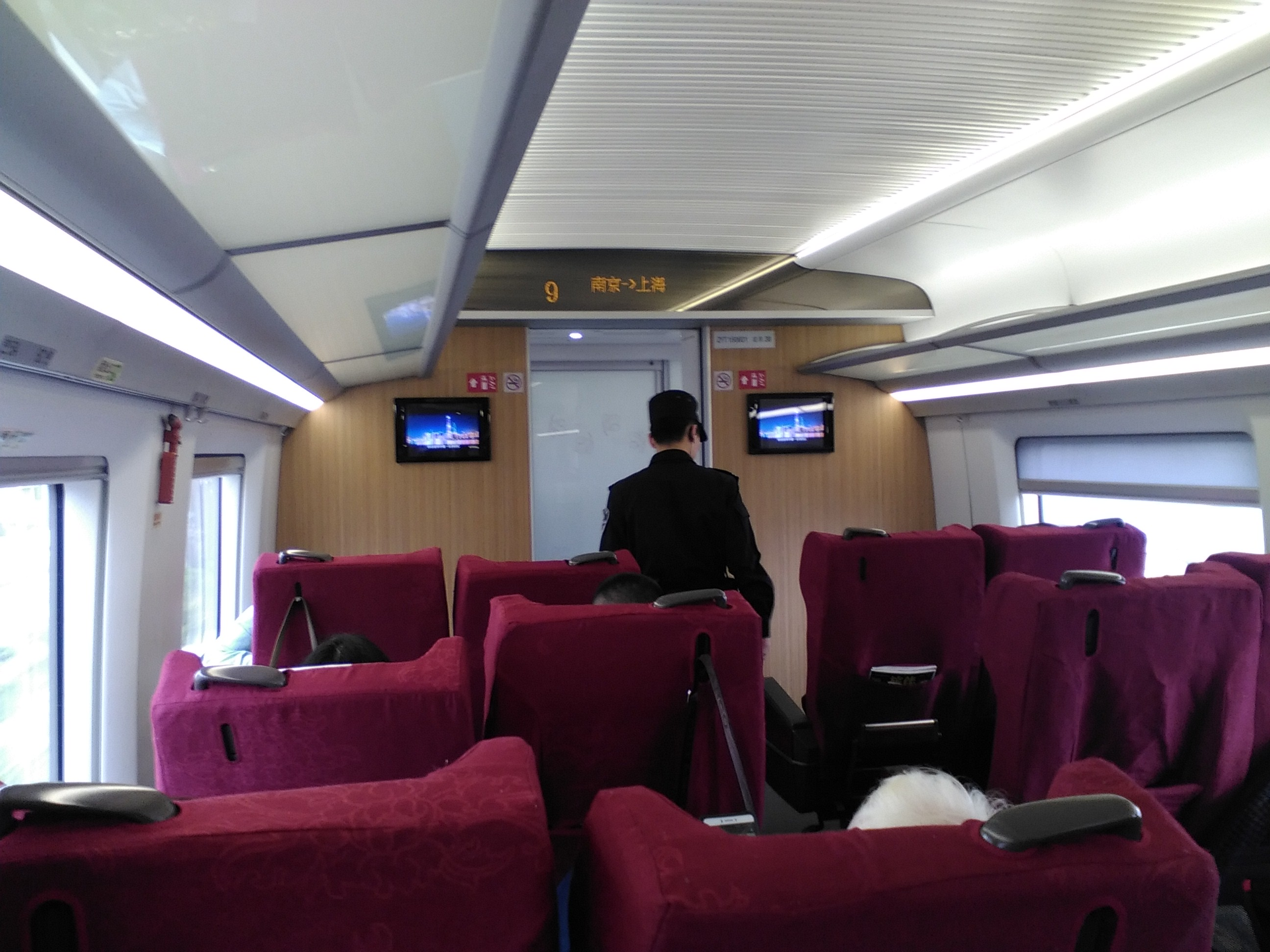 First Class cabin of G7015, from Nanjing towards Shanghai. 中文（中国大陆）: G7015次列车一等座席位